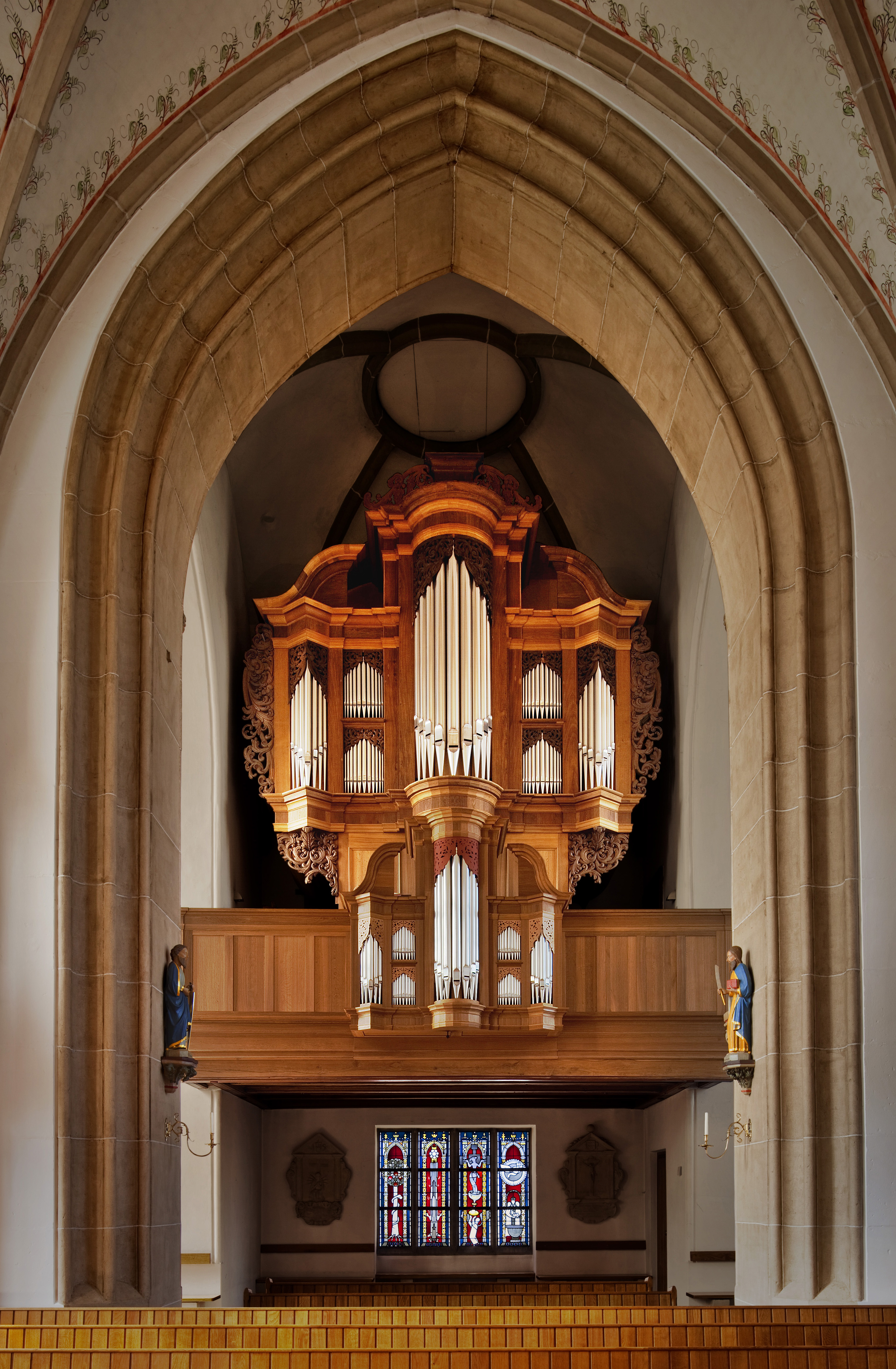 Nordwalde organ - small